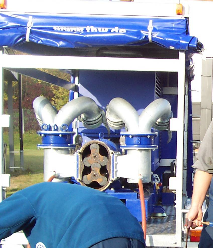 Börger Pump of german THW